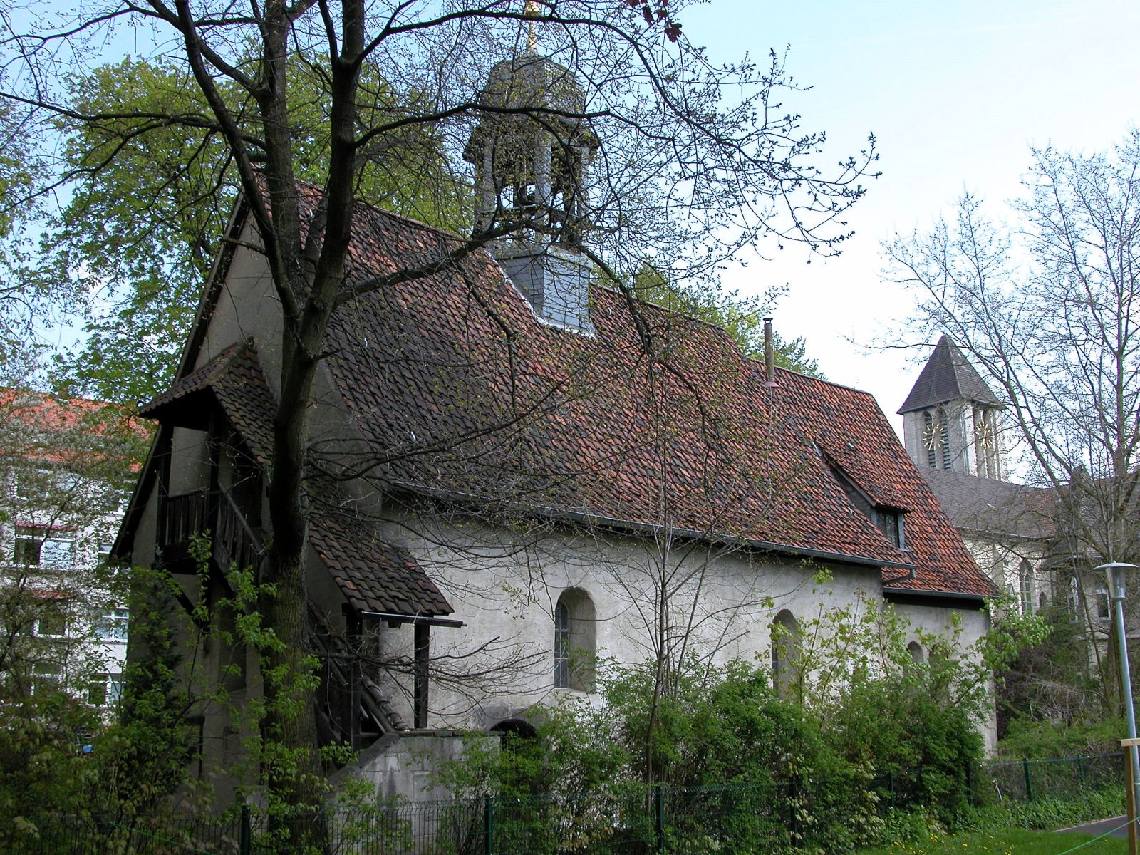 Braunschweig, Germany: St. Leonard’s Chapell, from the southwest.